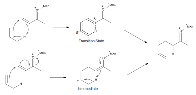 ene reaction